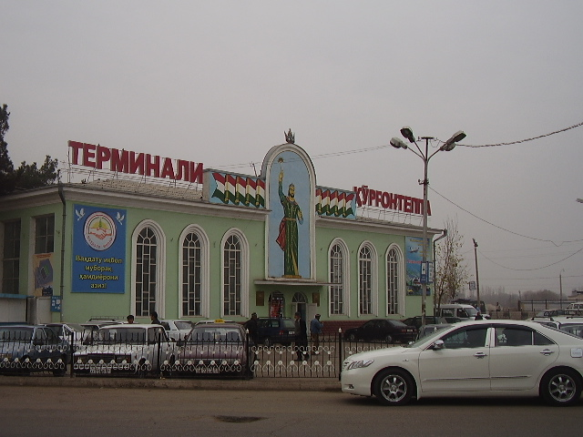 Kurgan-teppa Terminal Тоҷикӣ: Терминали Қӯрғонтеппа